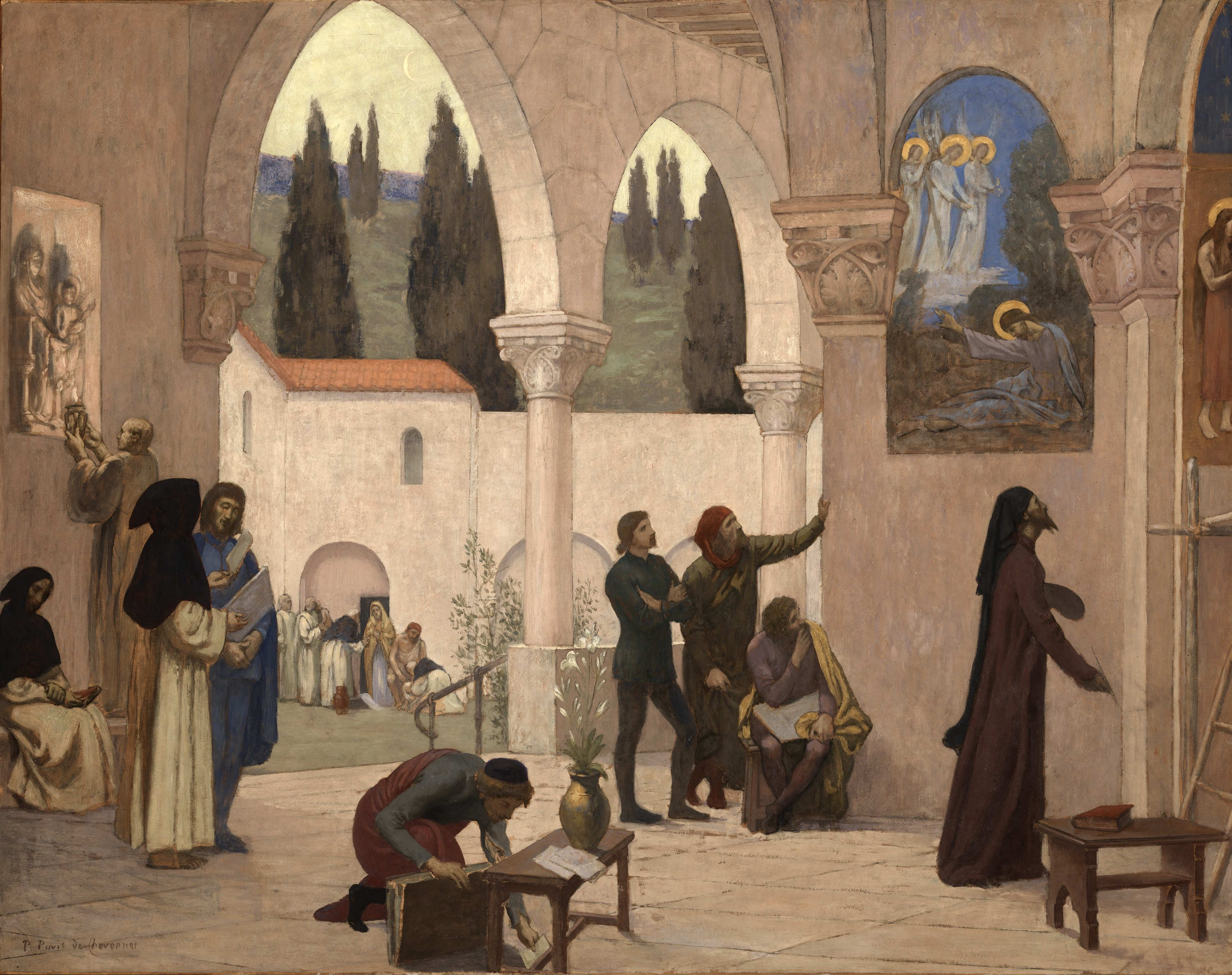 Monks painting icons in a monastery in France.